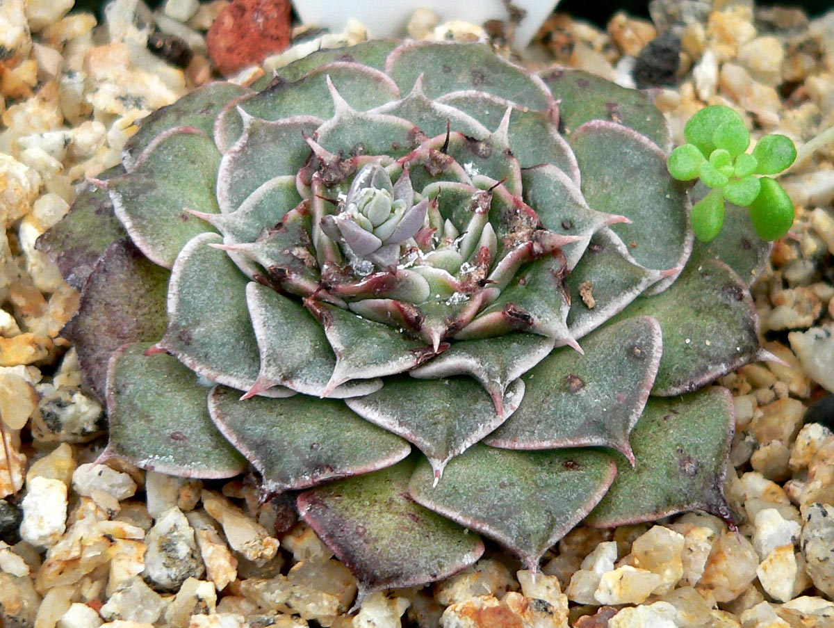 Photo of Tacitus bellus at the University of California Botanical Garden